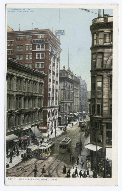 Vine Street, Cincinnati, Ohio (1907-1908)